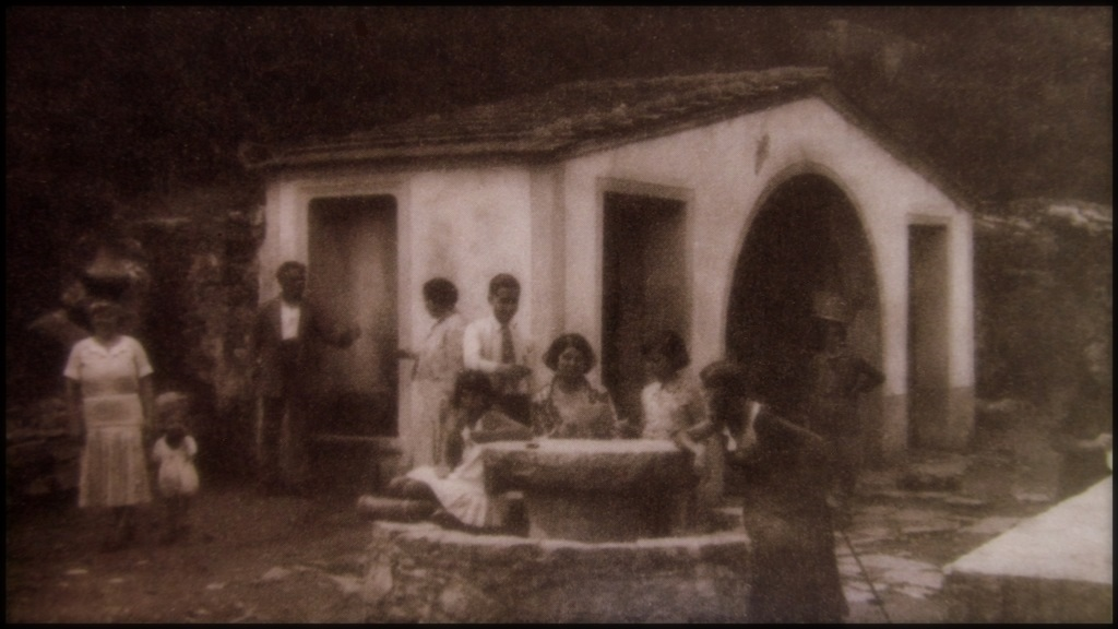 Elba island